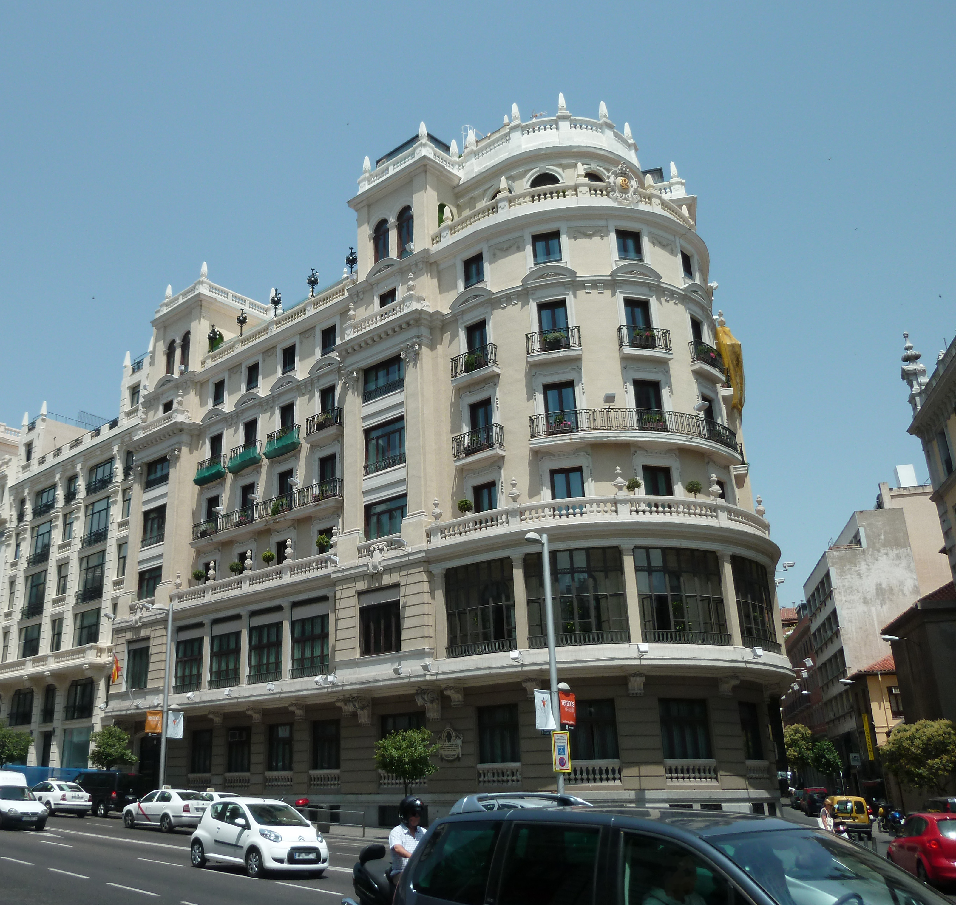 Façade of Edificio Gran Peña, a building at 2nd Gran Vía (an avenue) in Madrid (Spain). Designed in 1914 by architects Eduardo Gambra Sanz and Antonio de Zumárraga and built from 1915 to 1916.